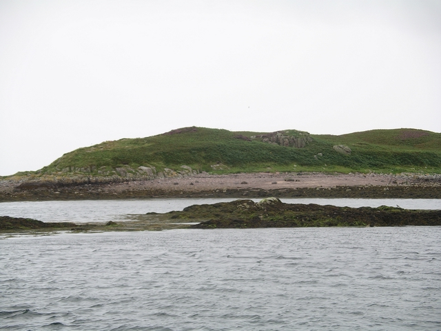 Beach, Sgeir nan Feusgan. One of the smaller of the Summer Isles, a favourite site for seal-spotting